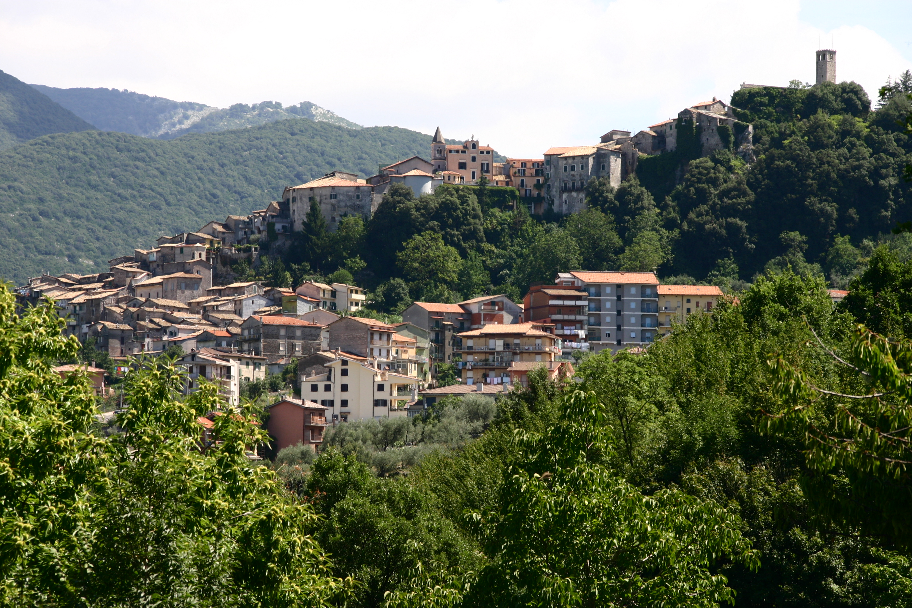 Carpineto Romano, Latium, Italy